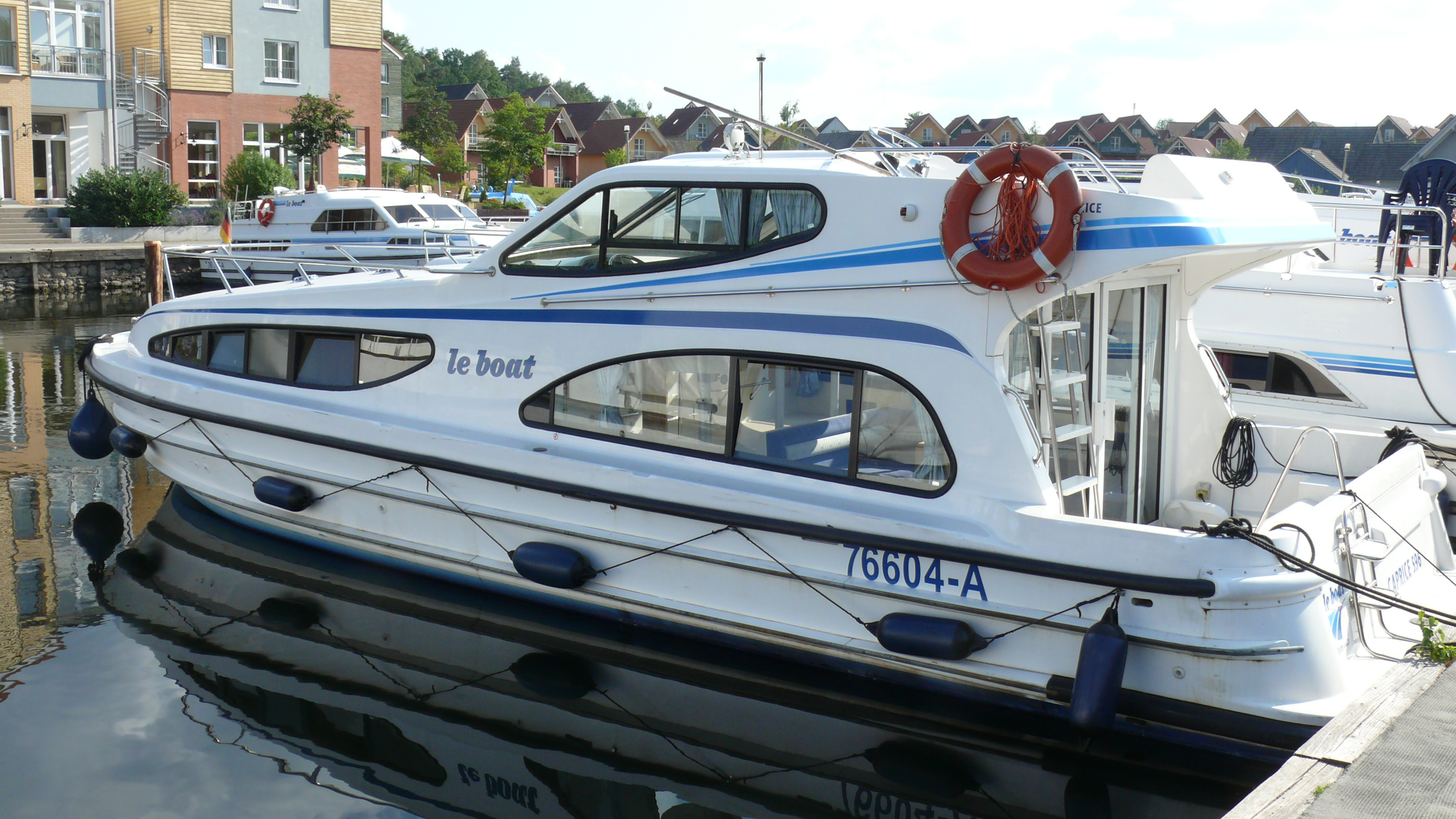 Turistic hausboat renting by Le Boat Company